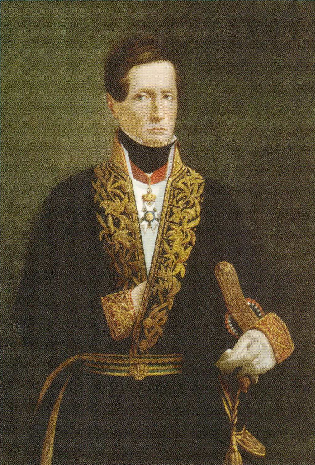 Jean René Constant Quoy (1790-1869). The painting was most likely made 1852 or later, as Quoy bears his cross of a Commander of the Legion of Honour, but not after 1869